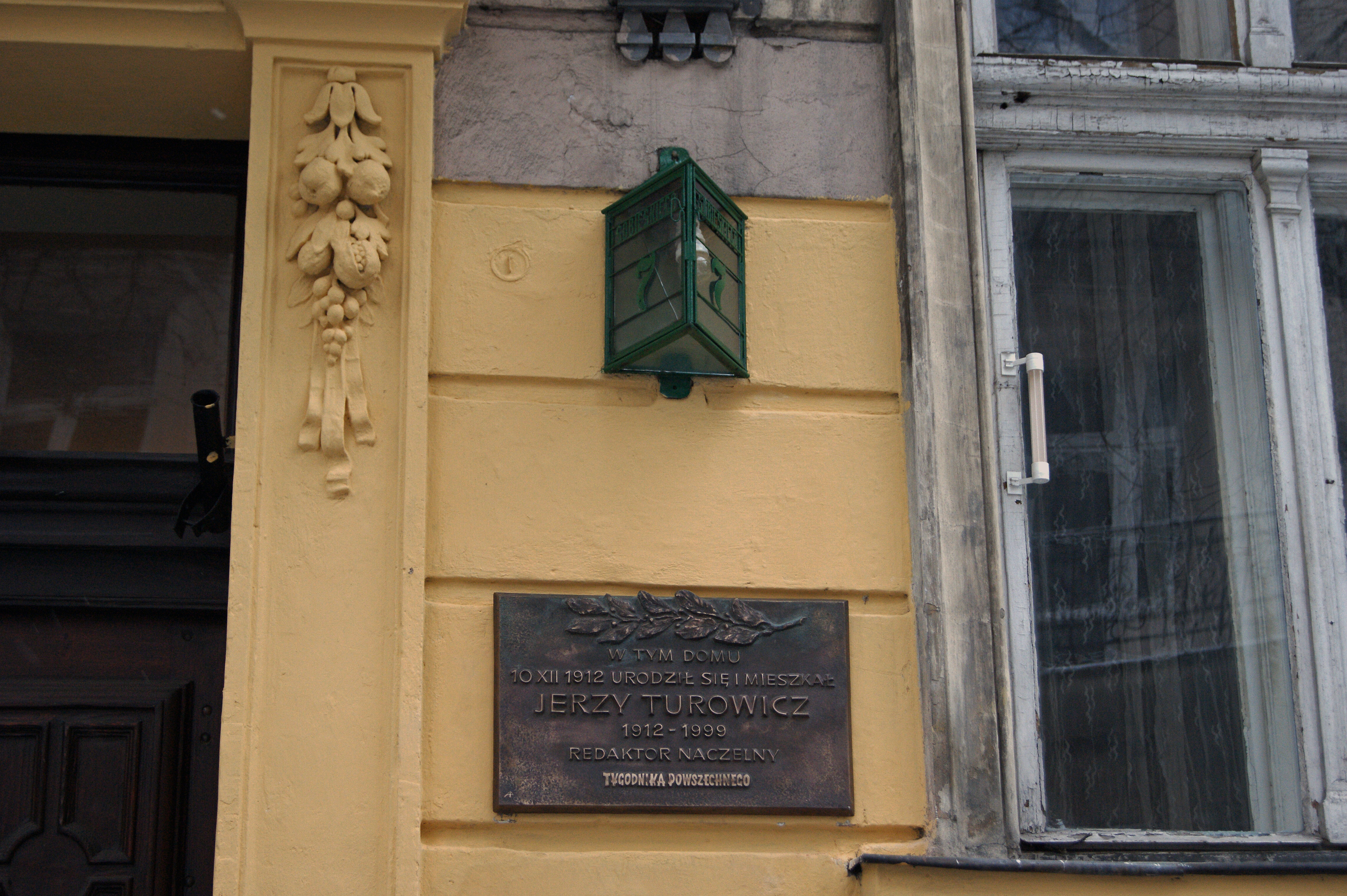 Jerzy Turowicz (Polish journalist) commemorative plaque, 7 Sobieskiego street, Krakow, Poland